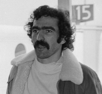 Players of RC Strasbourg